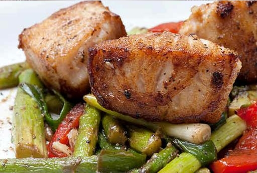 Grilled Hemibagrus elongatus (=Syn. Mystus elongatus), Việt Trì, Việt Nam